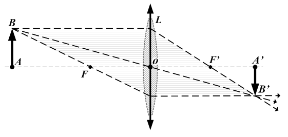 Thin lens.